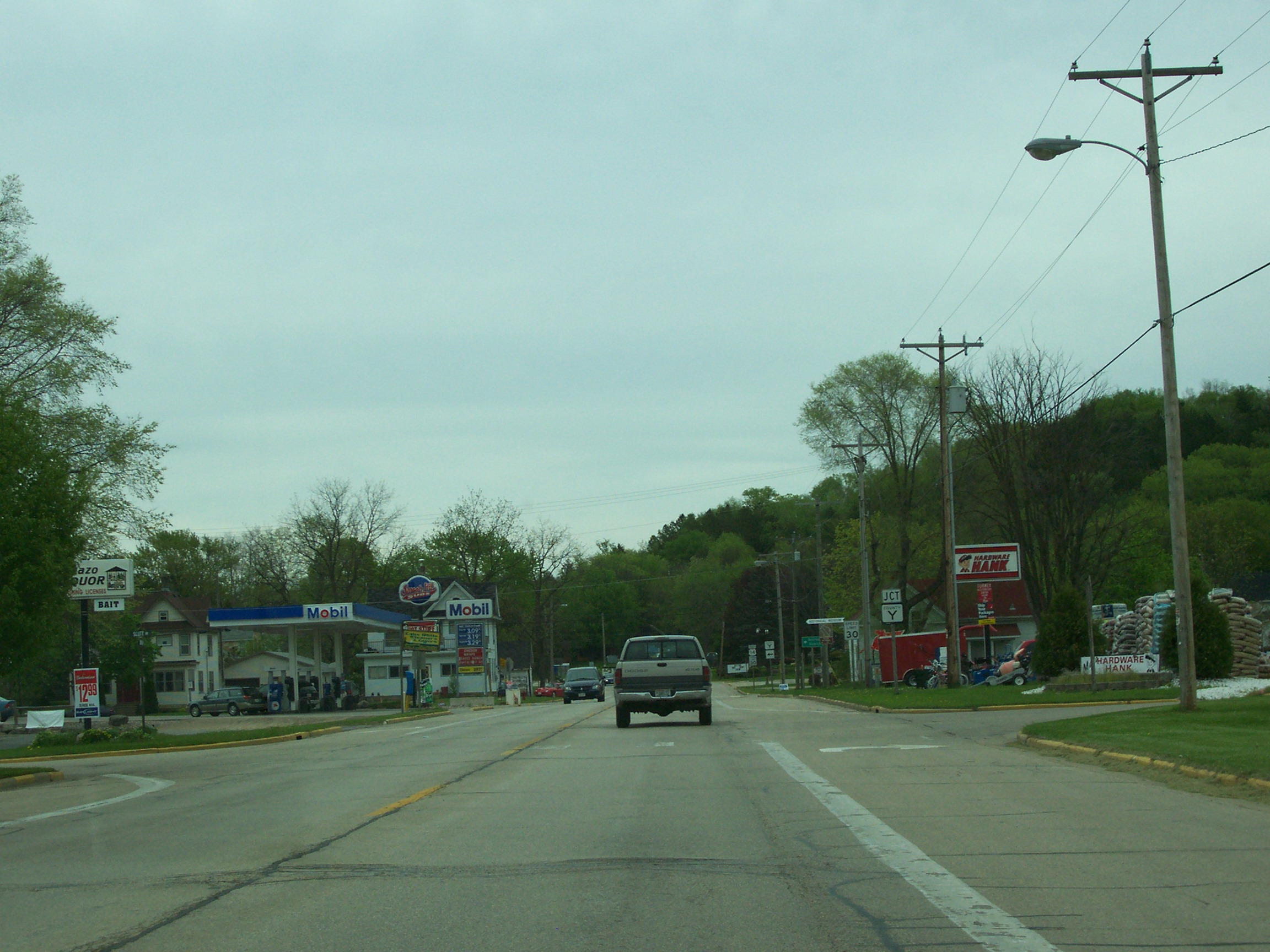 Looking east at Mazomanie, Wisconsin, USA on U.S. Route 14.